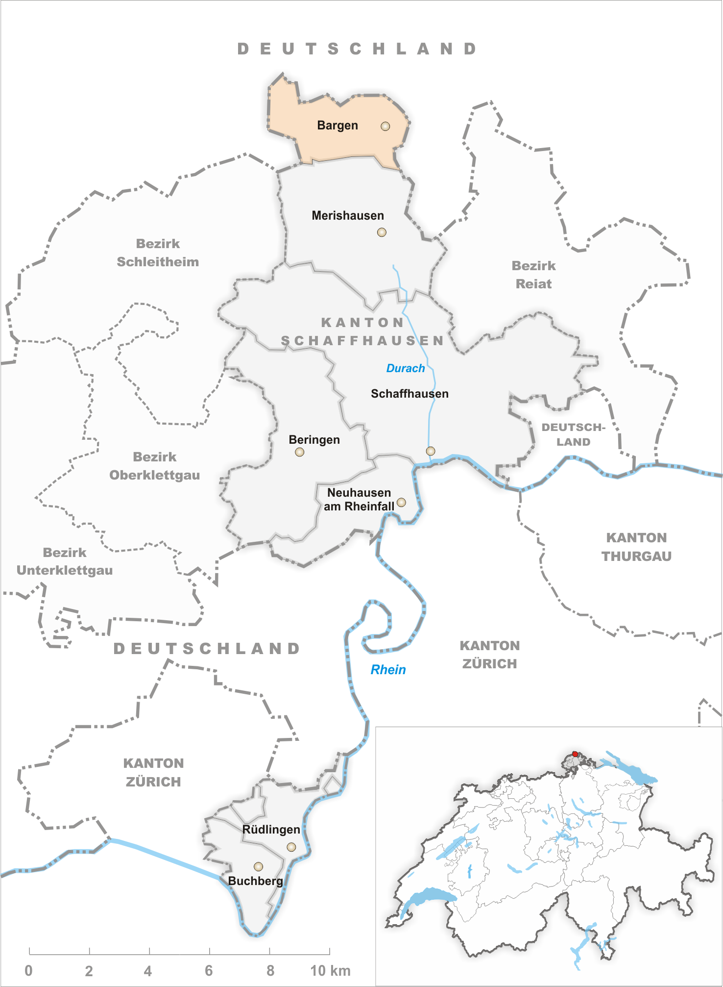 Municipality Bargen